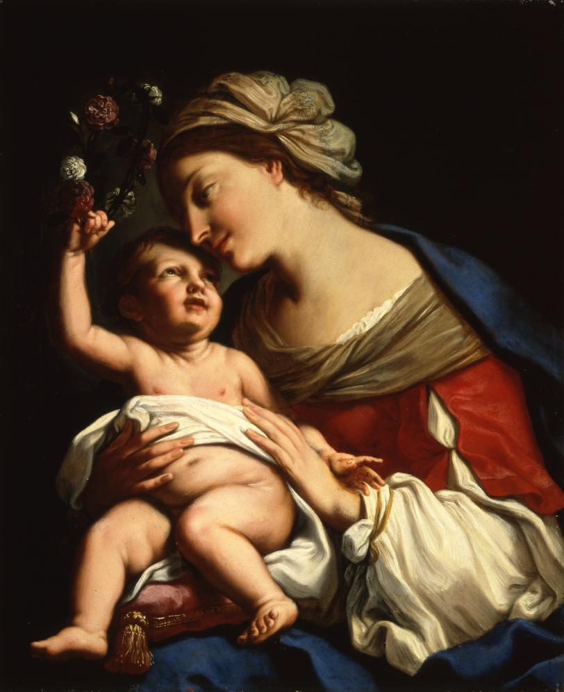 Elisabetta Sirani’s Virgin and Child portrays Mary not as a remote Queen of Heaven but as a very real, young mother.